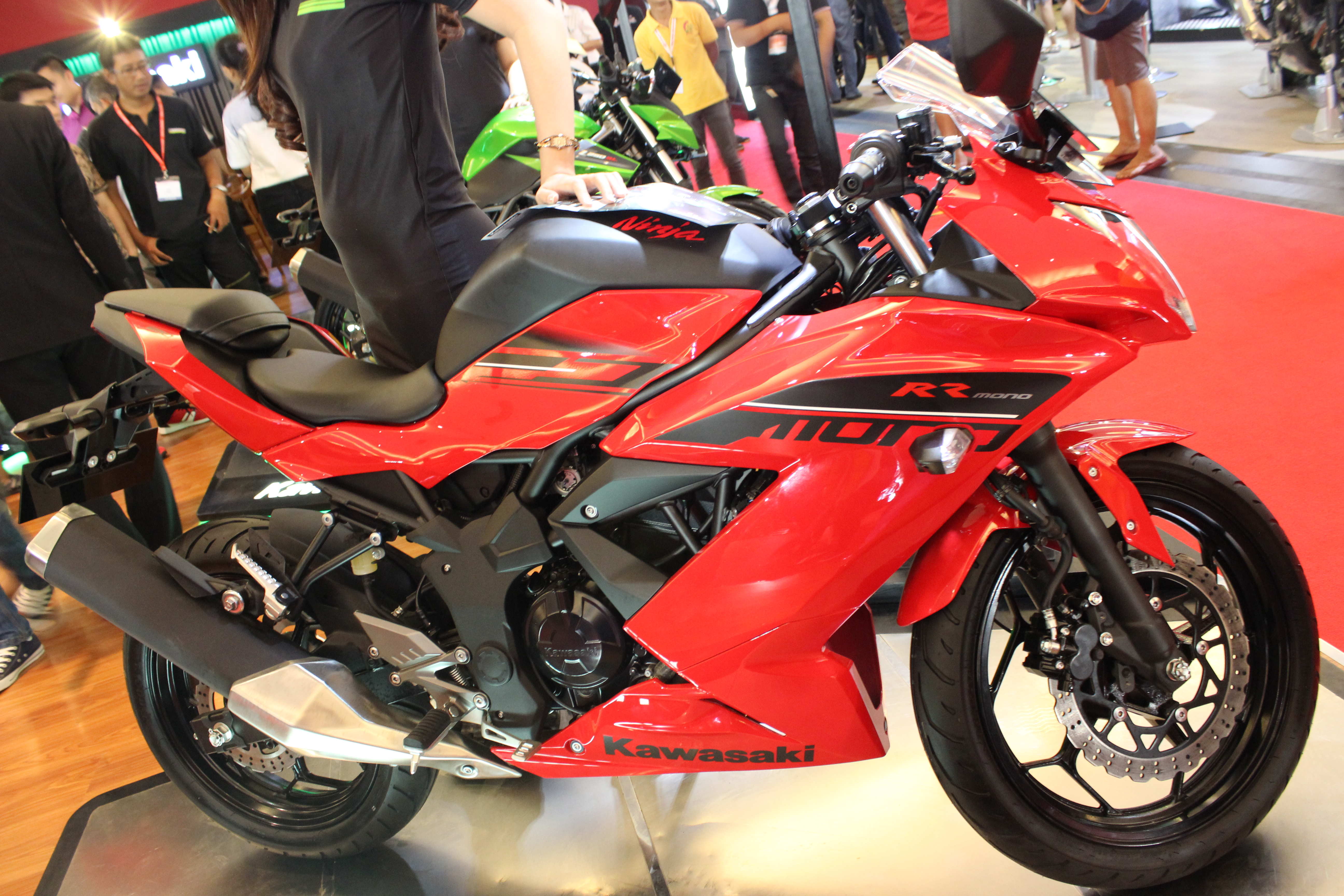 Kawasaki Ninja RR Mono @ Indonesia International Motor Show 2016, Kemayoran, Jakarta, Indonesia